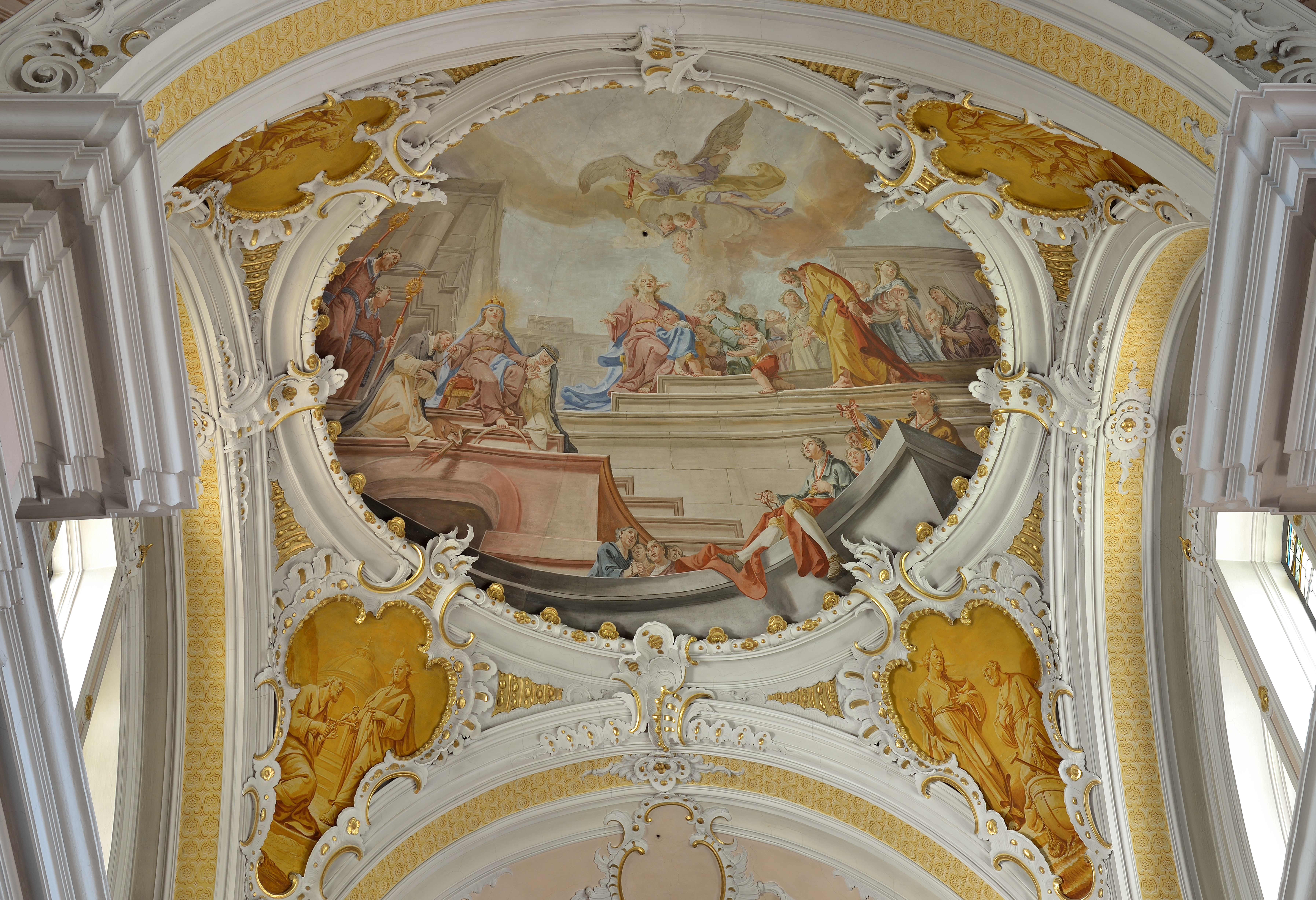 Fresco By Matthäus Günther in the parish church of Saint James and Saint Leonard in San Linert